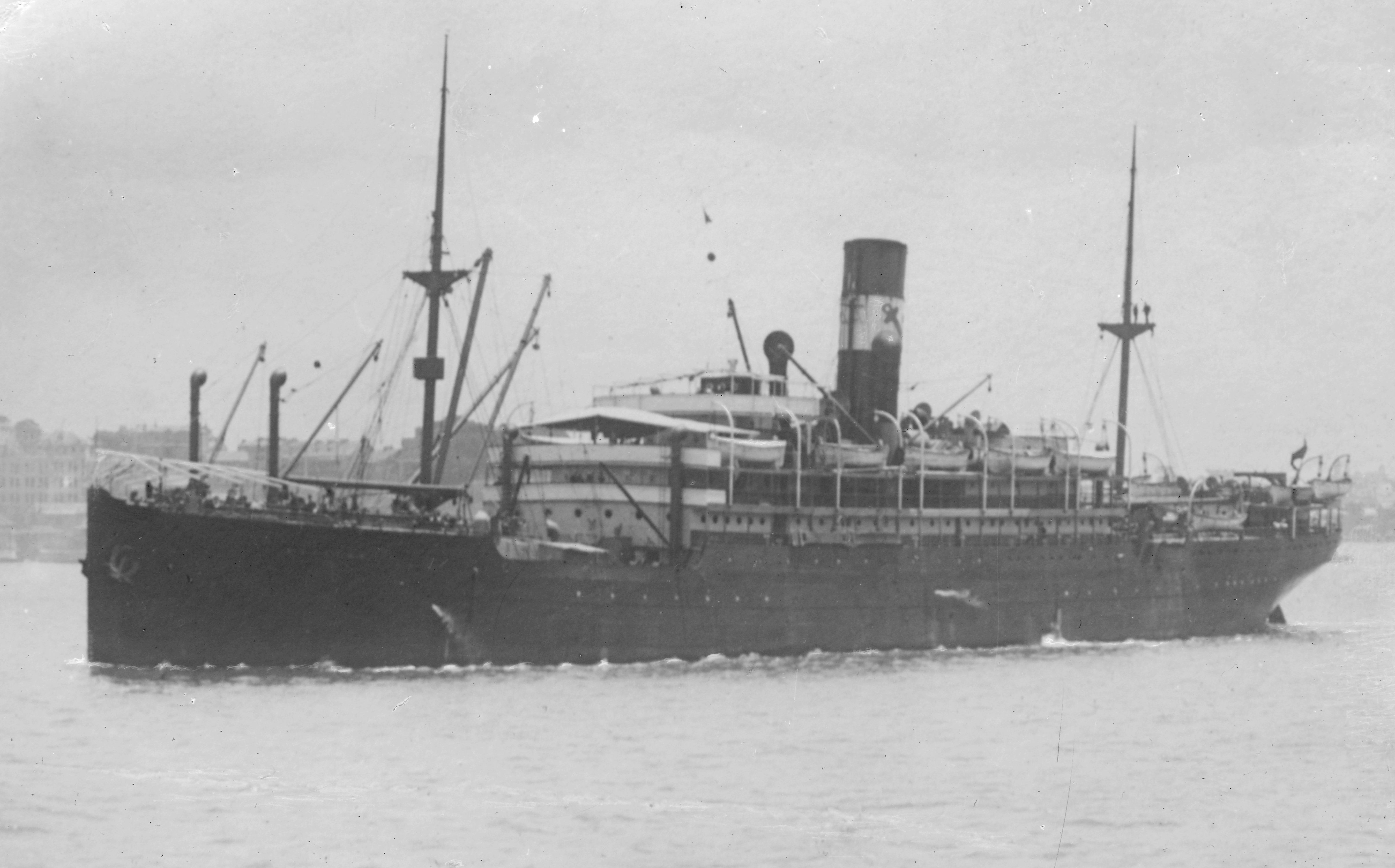 The steamship Liner Waratah